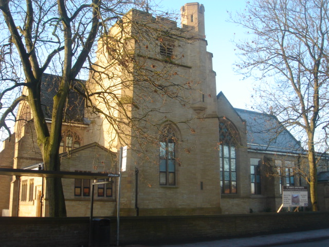 St Anne's apartments, Tyldesley Road, Hindsford, Atherton, Greater Manchester (formerly Lancashire)